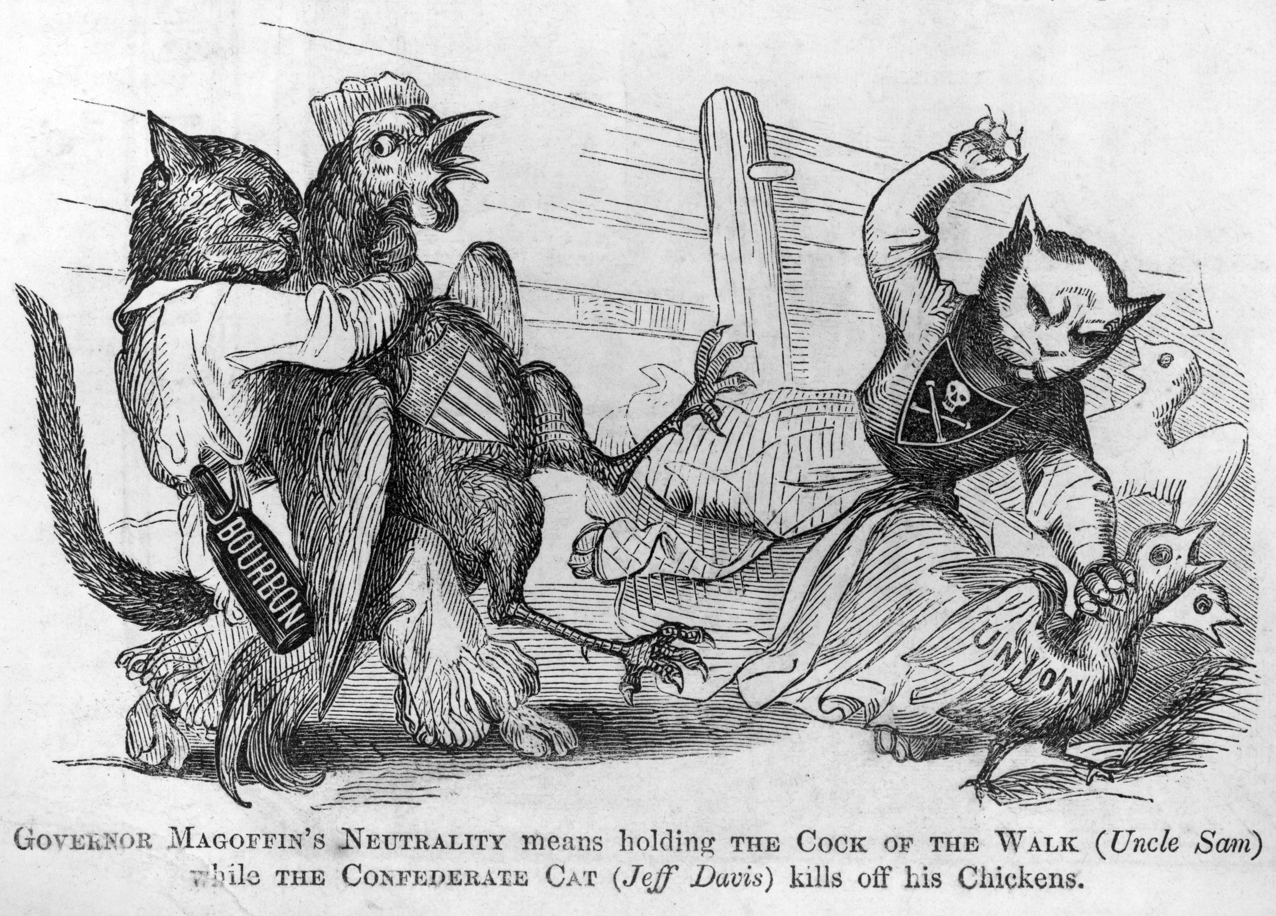 "Governor Magoffin's neutrality means holding the cock of the walk (Uncle Sam) while the confederate cat (Jeff Davis) kills off his chickens." Political cartoon about the neutrality of Kentucky in the days leading up to the American Civil War. Illus. in: Harper's Weekly, v. 5, no. 235 (1861 June 29), p. 403